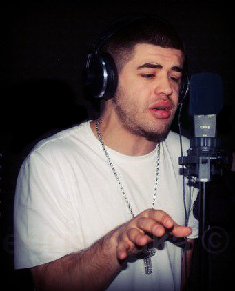 Noizy on OTR Records